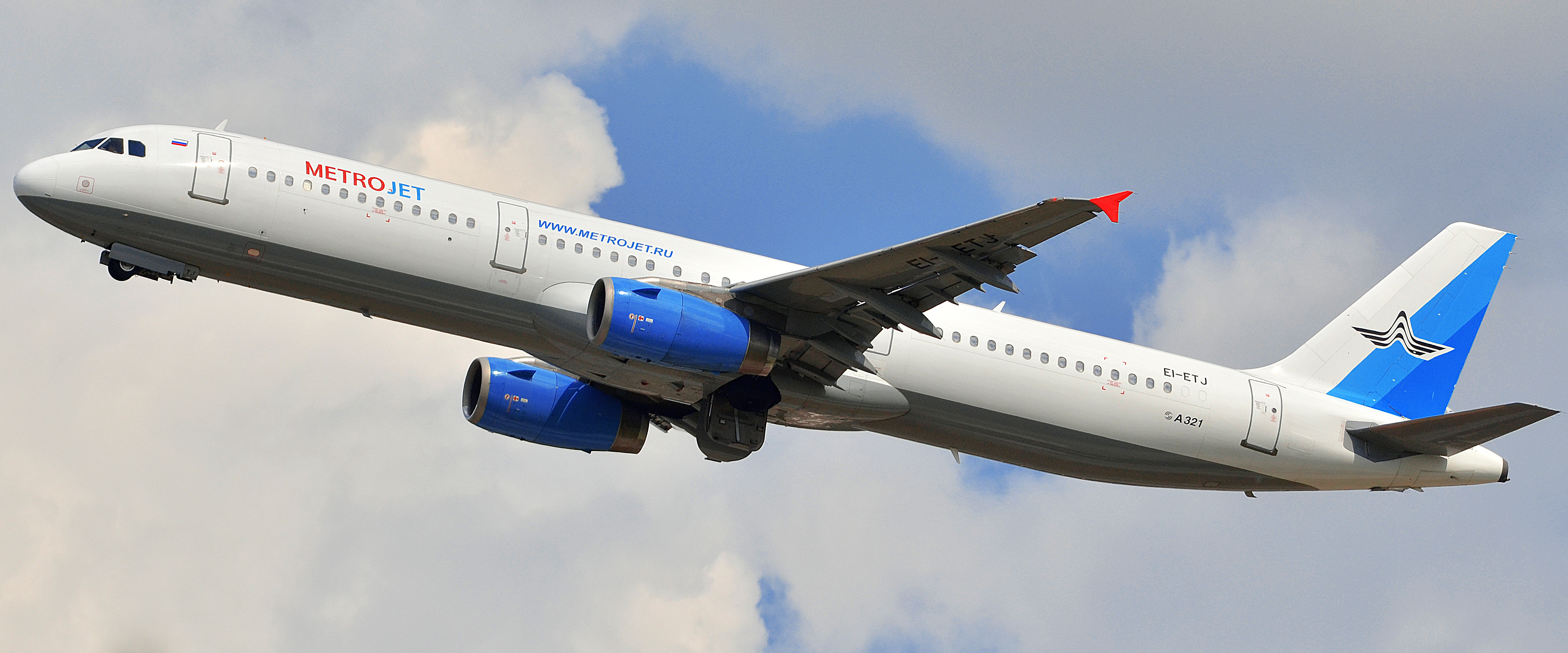 You can see here